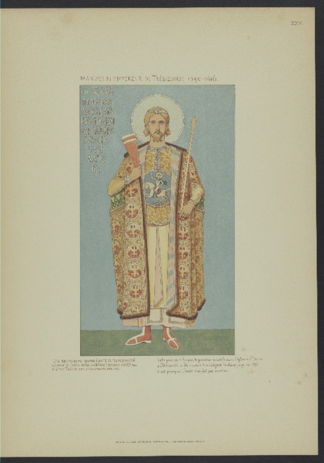 Drawing of a fresco of Manuel III, Emperor of Trebizond